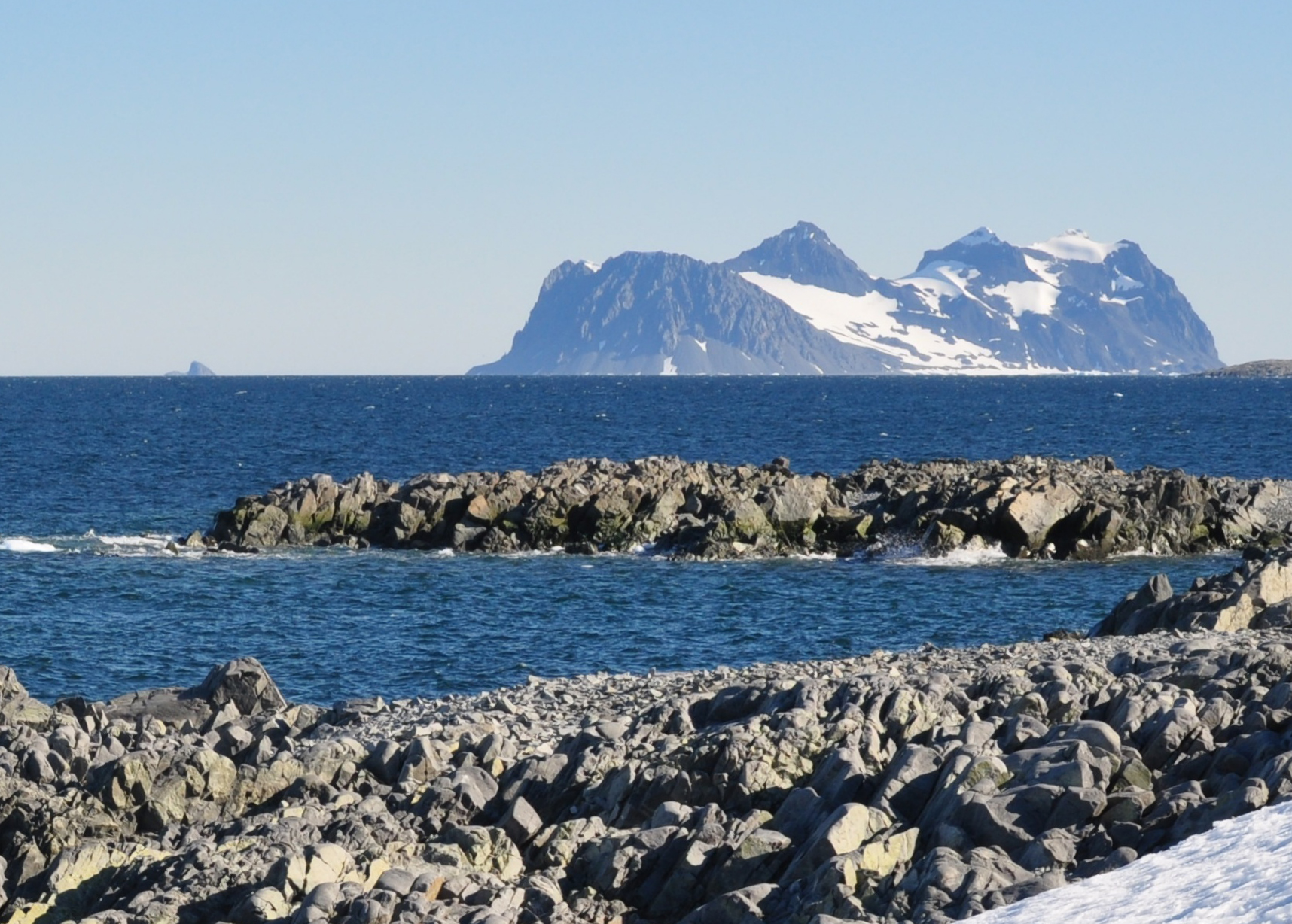 Jenny Island seen from Rothera Point (Rothera Research Station) on Adelaide Island, Antarctica. The tiny islands on the left are is Guébriant Islands.